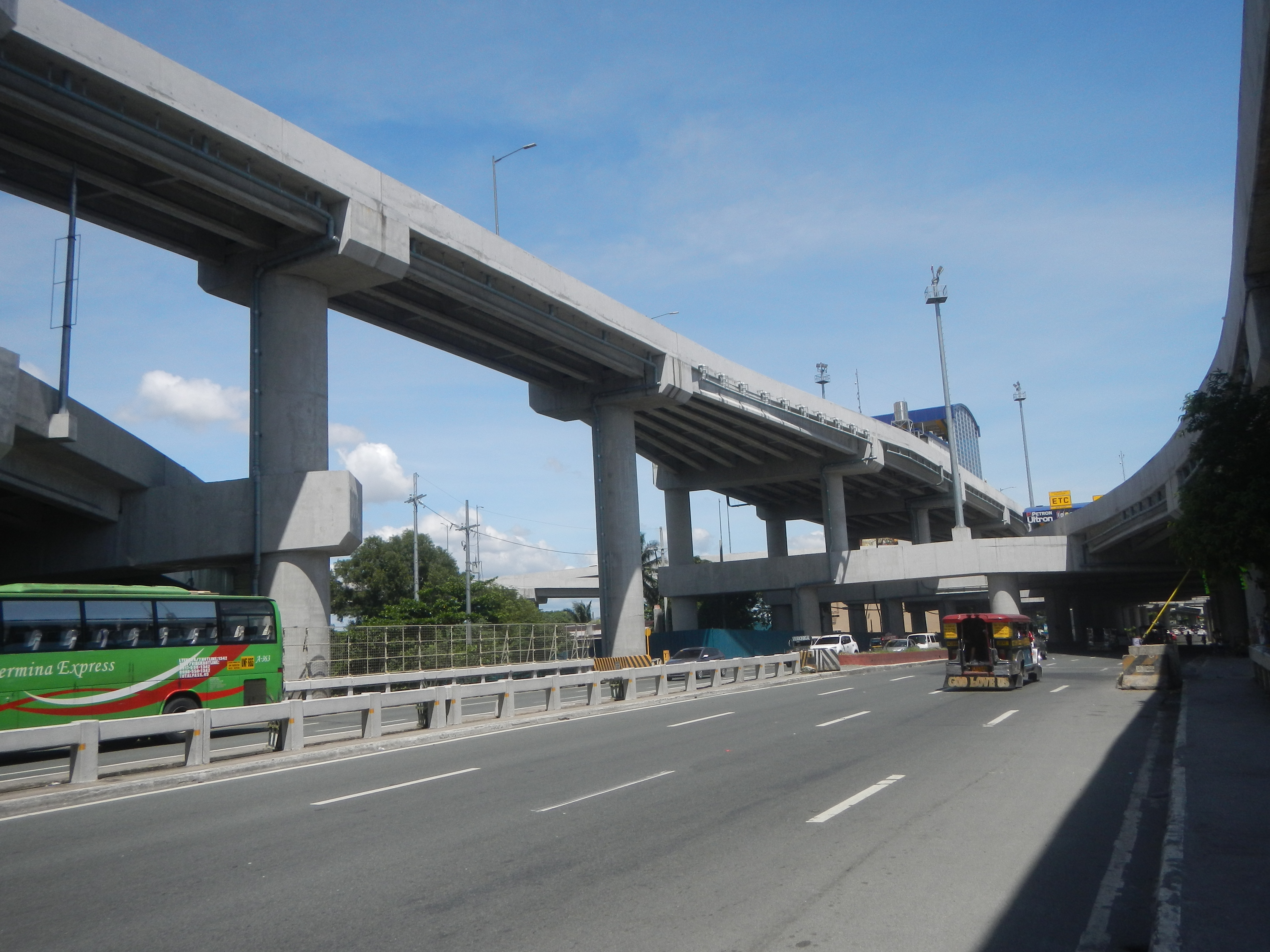 NAIA Road - NAIAx Junction, Intersection - Domestic Road, Tambo, Parañaque City; Tambo Bridge, Parañaque City River NAIA Road - NAIAx; KM Sta.7+909 20 metric tons load limit I.D. No. BO1833LZ MIA Road, Pasay City 14°30'37"N 121°0'29"E NAIA Road 14°30'57"N 121°0'9"E Domestic Road 14°31'19"N 121°0'3"E NAIAx to Domestic Road to NAIA Road Legislative districts of Parañaque 1st District, Districts and barangays, Barangay Tambo 14°30'59"N 120°59'20"E, Parañaque City to List of barangays of Metro Manila Barangay 193, Zone 20, District I, and Barangays 194, 195, 196, 197, 198 and 199, Zone 20, District I, Pasay City Improvement of NAIA Road Outfall from Barangay Tambo Bridge to Nayong Filipino Creek P 36.741 million NAIA Expressway Phase 1 (Skyway) and Phase 2 (NAIAx) (Note: Judge Florentino Floro, the owner, to repeat, Donor Florentino Floro of all these photos Judge Floro hereby donate gratuitously, freely and unconditionally Judge Floro all these photos to and for Wikimedia Commons, exclusively, for public use of the public domain, and again without any condition whatsoever).